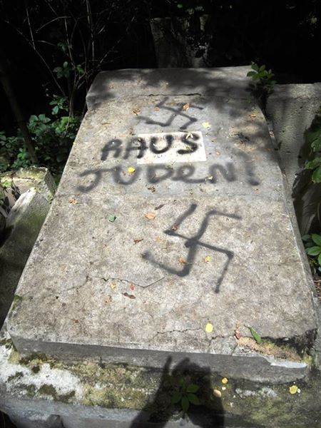 Jewish cemetery in Chișinău, Republic of Moldova